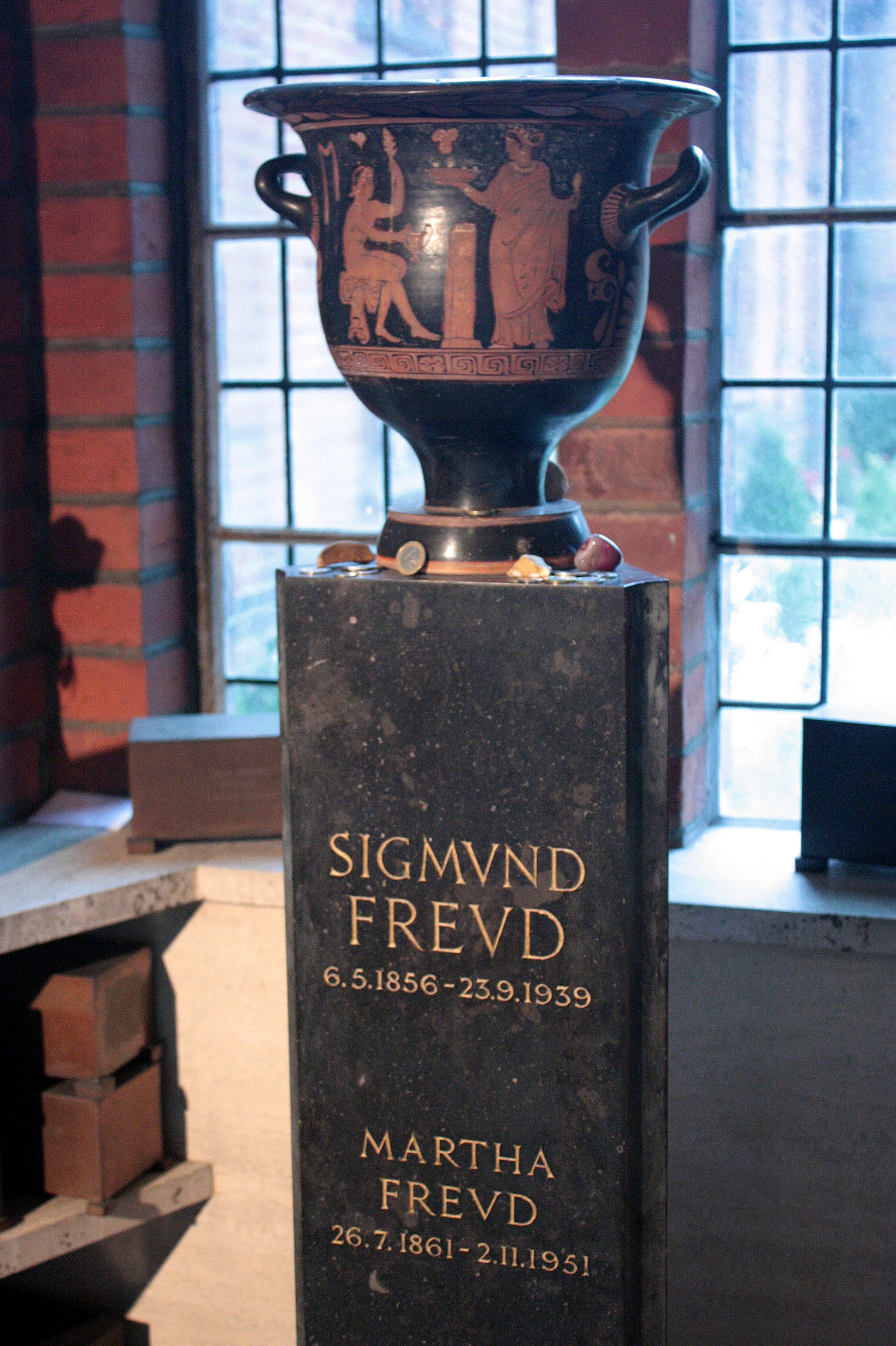 Cinerary urn with Sigmund Freud's ashes in the Ernest George Columbarium, part of Golders Green Crematorium